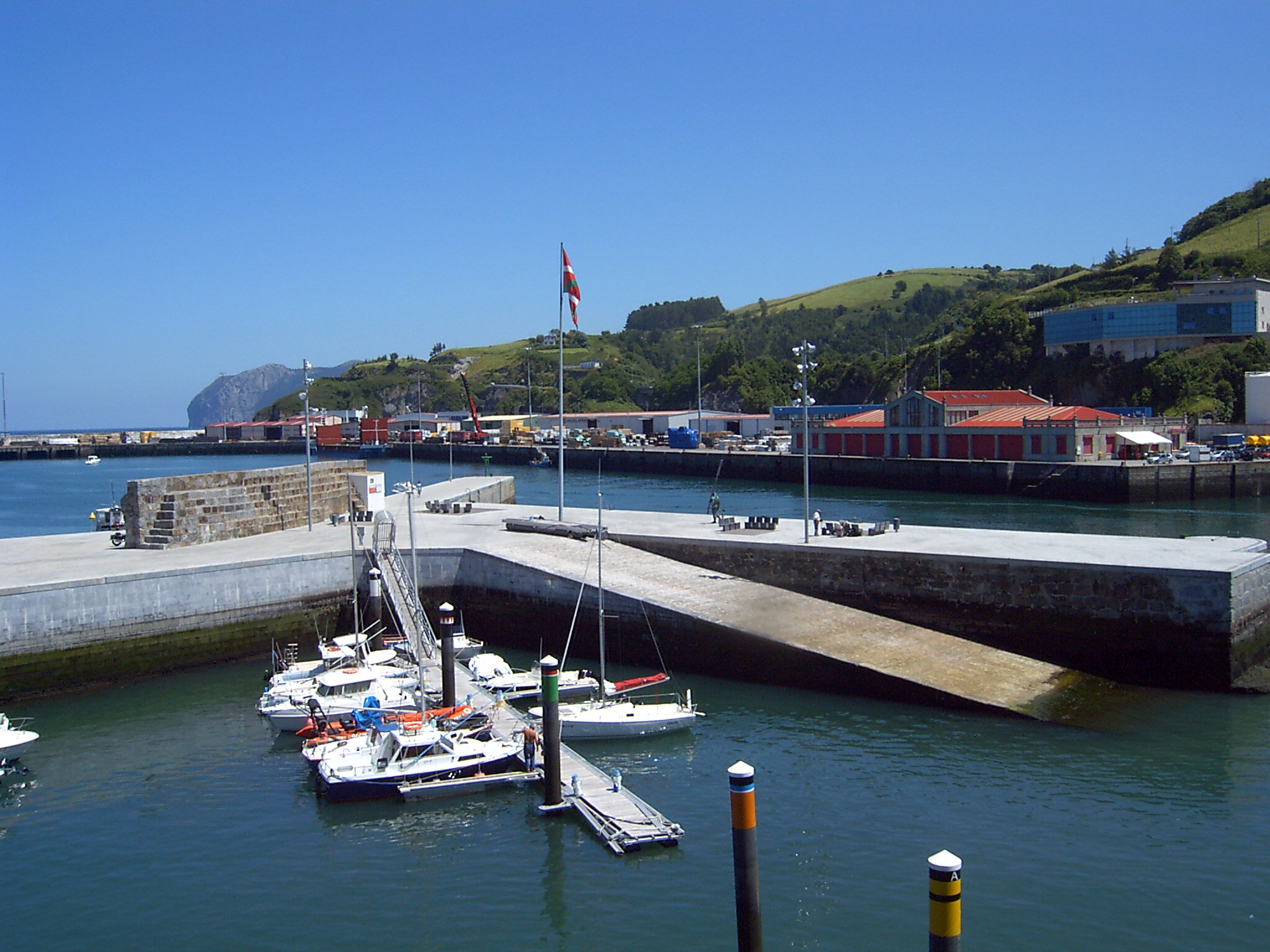 commercial an pleasure port